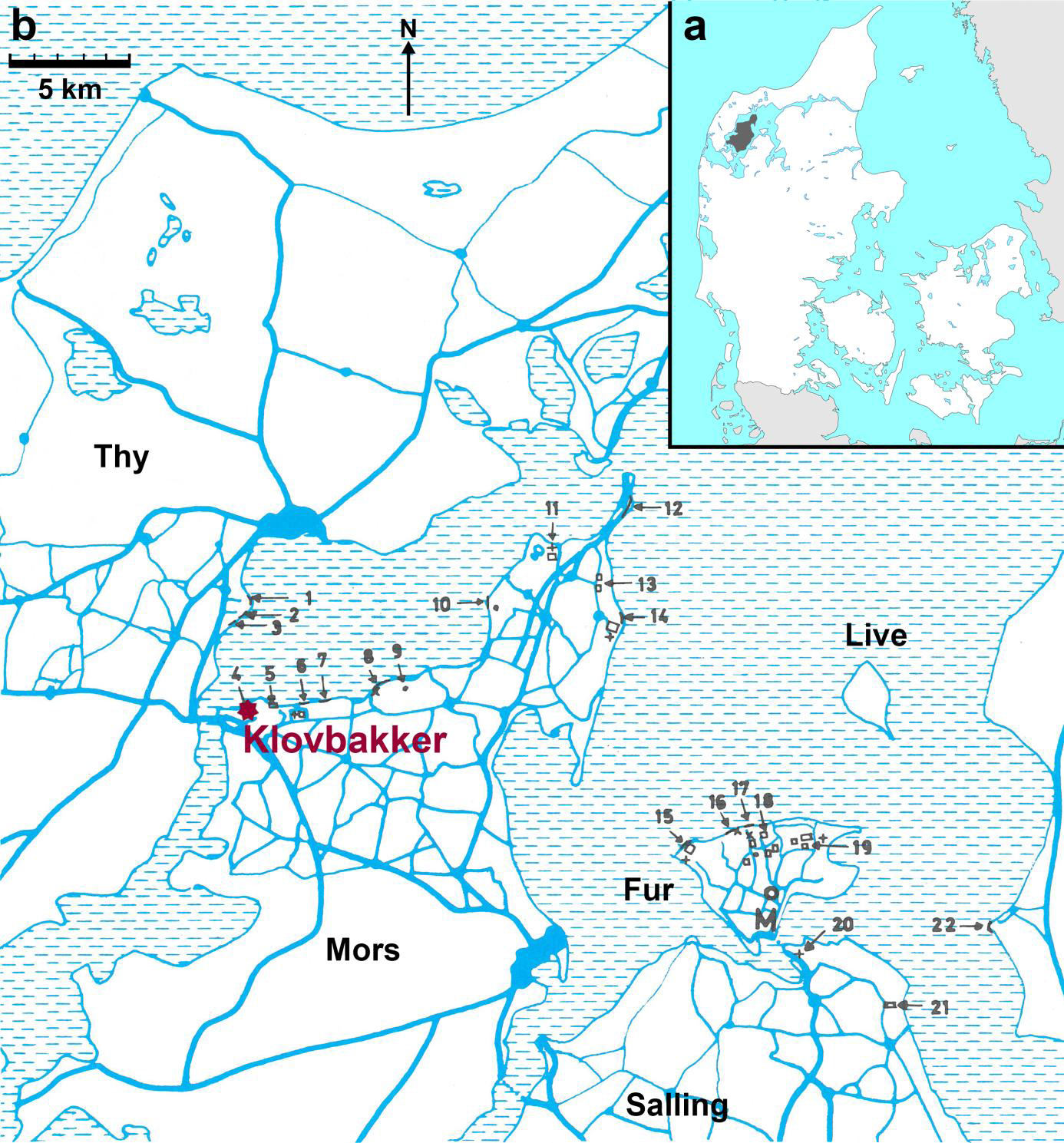 Locality of the new species. (a) Map of Denmark, with Island of Mors in dark grey; modified from ( (b) Map of northwest Jutland, Denmark, showing the localities of the Fur Formation (numbers); modified from Bonde8. The red star indicates the locality Klovbakker, from where the fossil bird came. Image generated with Adobe Photoshop CS6 (